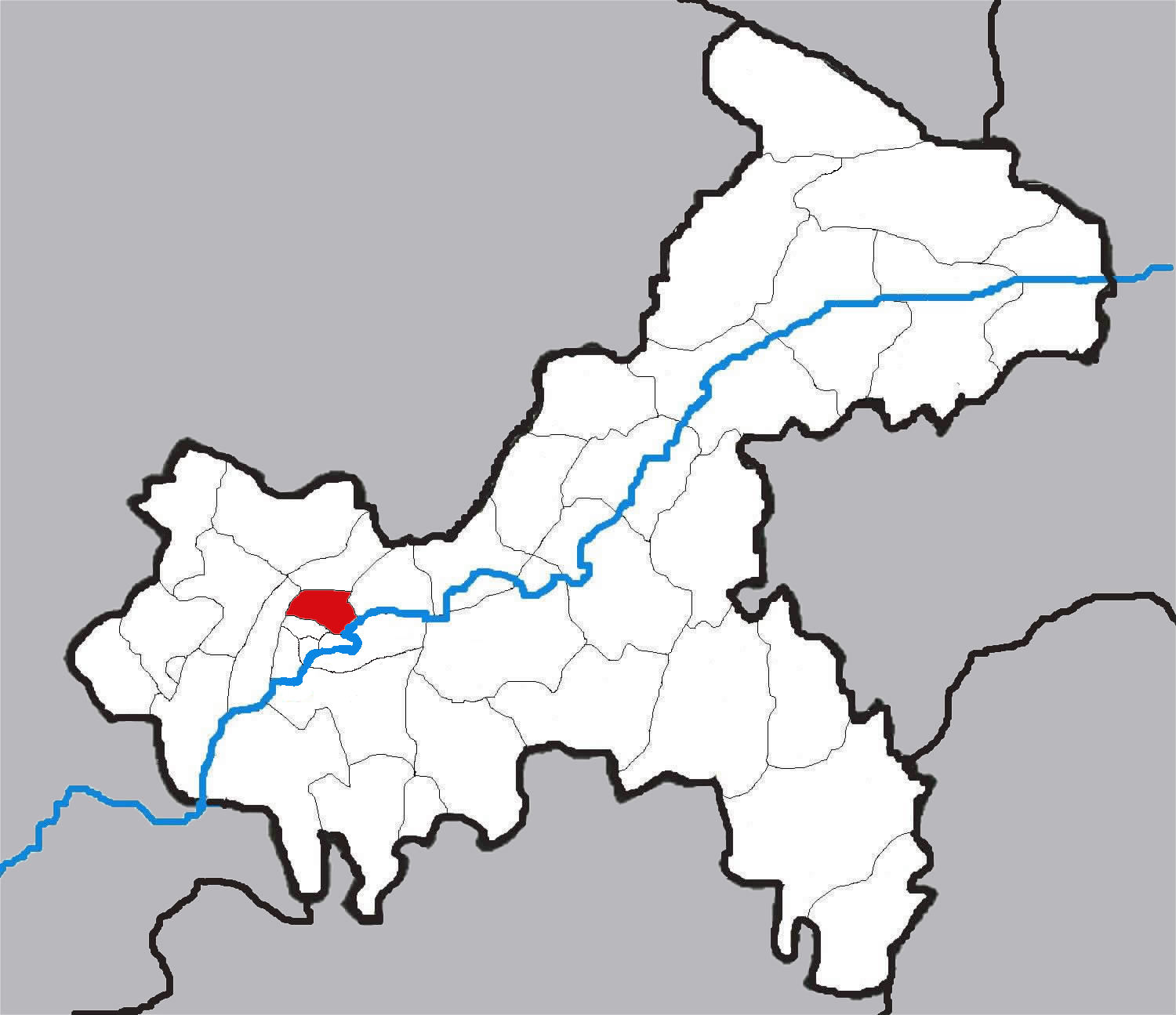 Administration maps of Chongqing, China